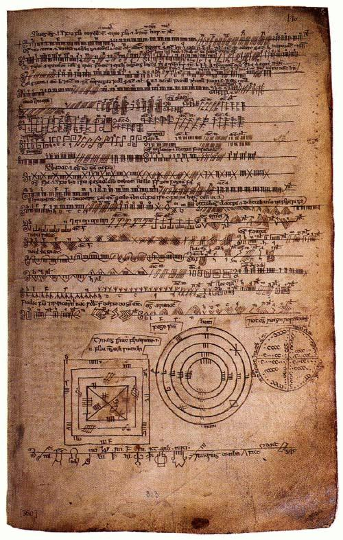 Page of the Book of Ballymote (1390), part of the Auraicept na n-Éces, explaining the Ogham script. The page shows varianst of Ogham, nrs. 43 to 77 of 92 in total, including shield ogham (nr. 73), wheel ogham (nr. 74), finn's window (nr. 75).